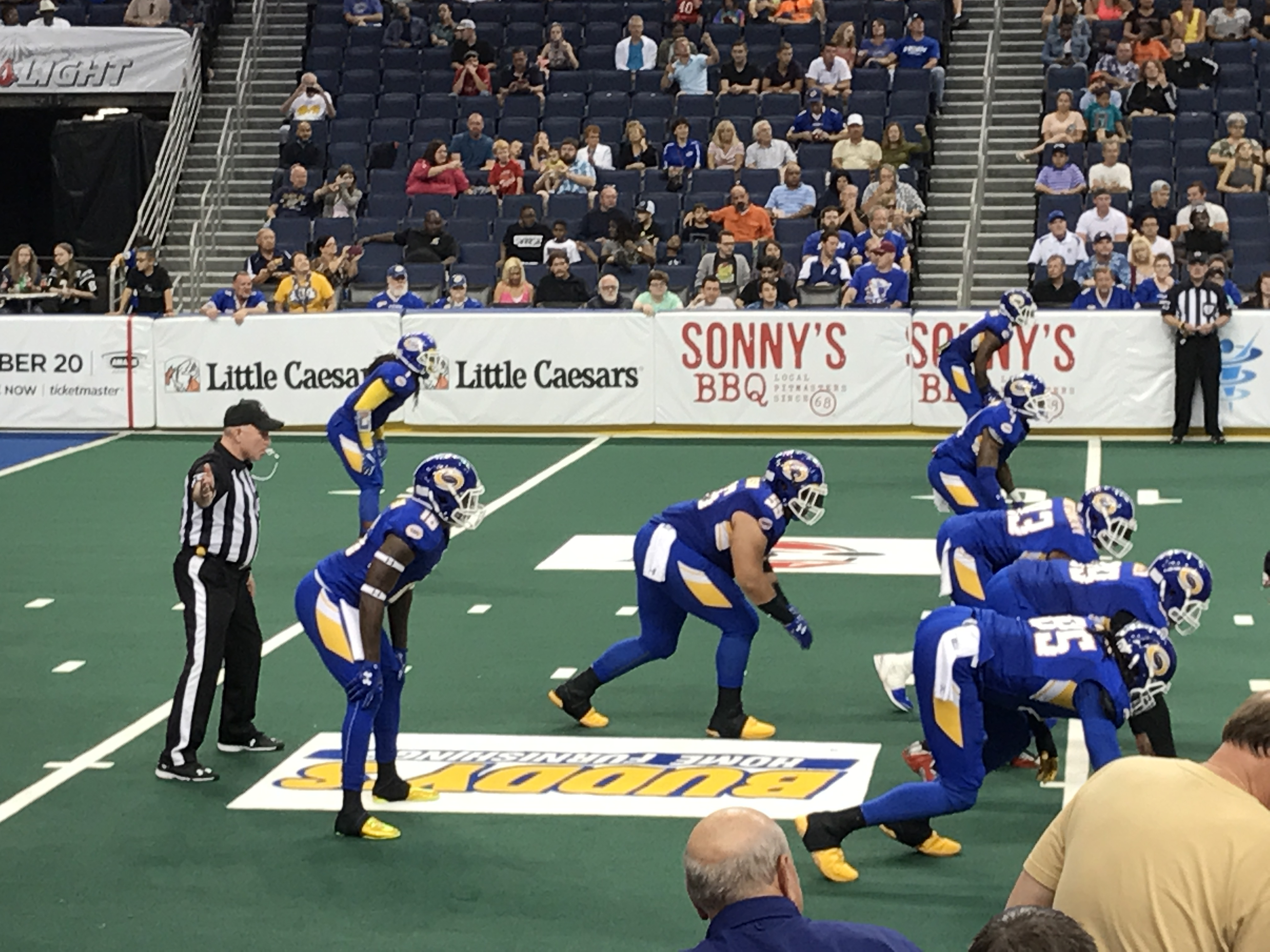 Storm defense presnap